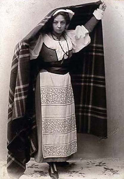 Vera Komissarzhevskaya as Nora in Ibsen's A Dolls House